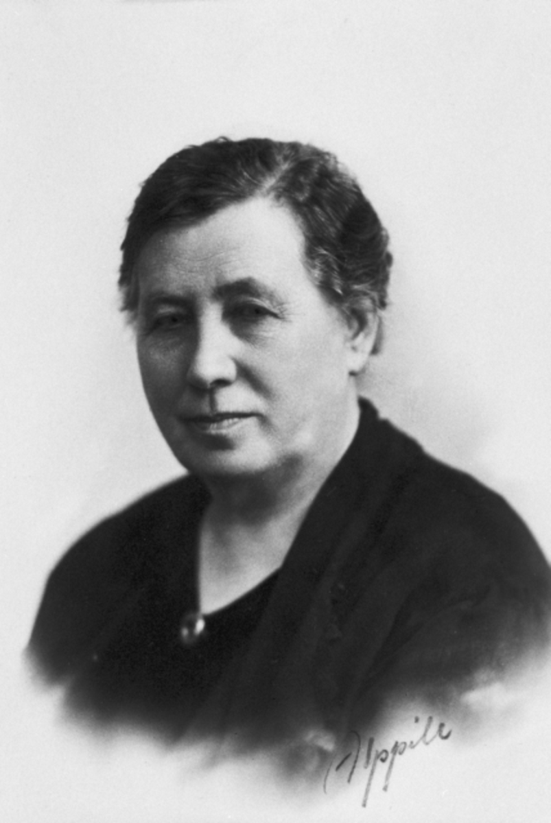 Photograph of the Finnish Member of Parliament Miina Sillanpää (1866–1952).